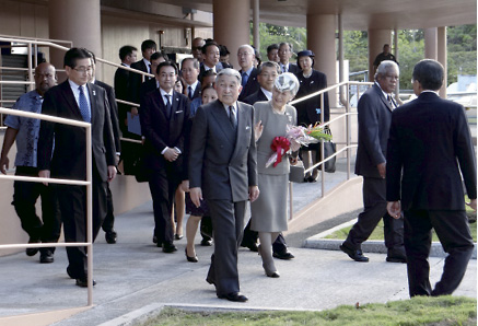 Emperor Akihito and Empress Michiko visited Roman Tmetuchl International Airport in Ngetkib City, Airai State on April 8, 2015.